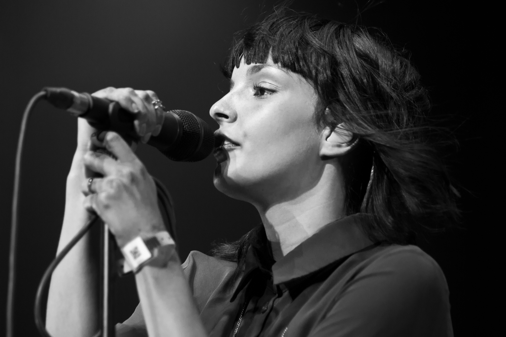 Lauren Mayberry of Chvrches at Southside Festival 2014 in Neuhausen ob Eck